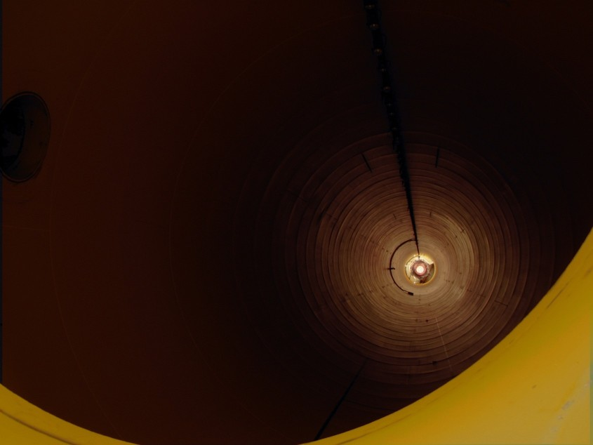 A view downward of the zero g facility in NASA Glenn.